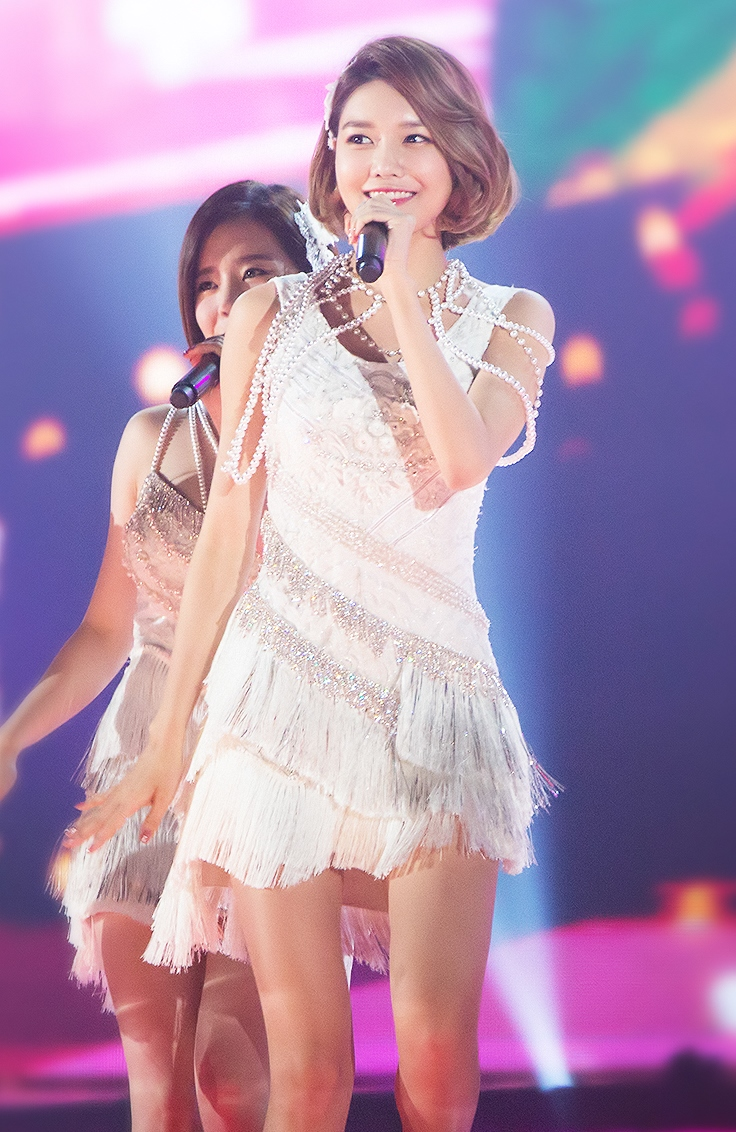 Sooyoung at KBS Gayo Daechukje December 30, 2015.